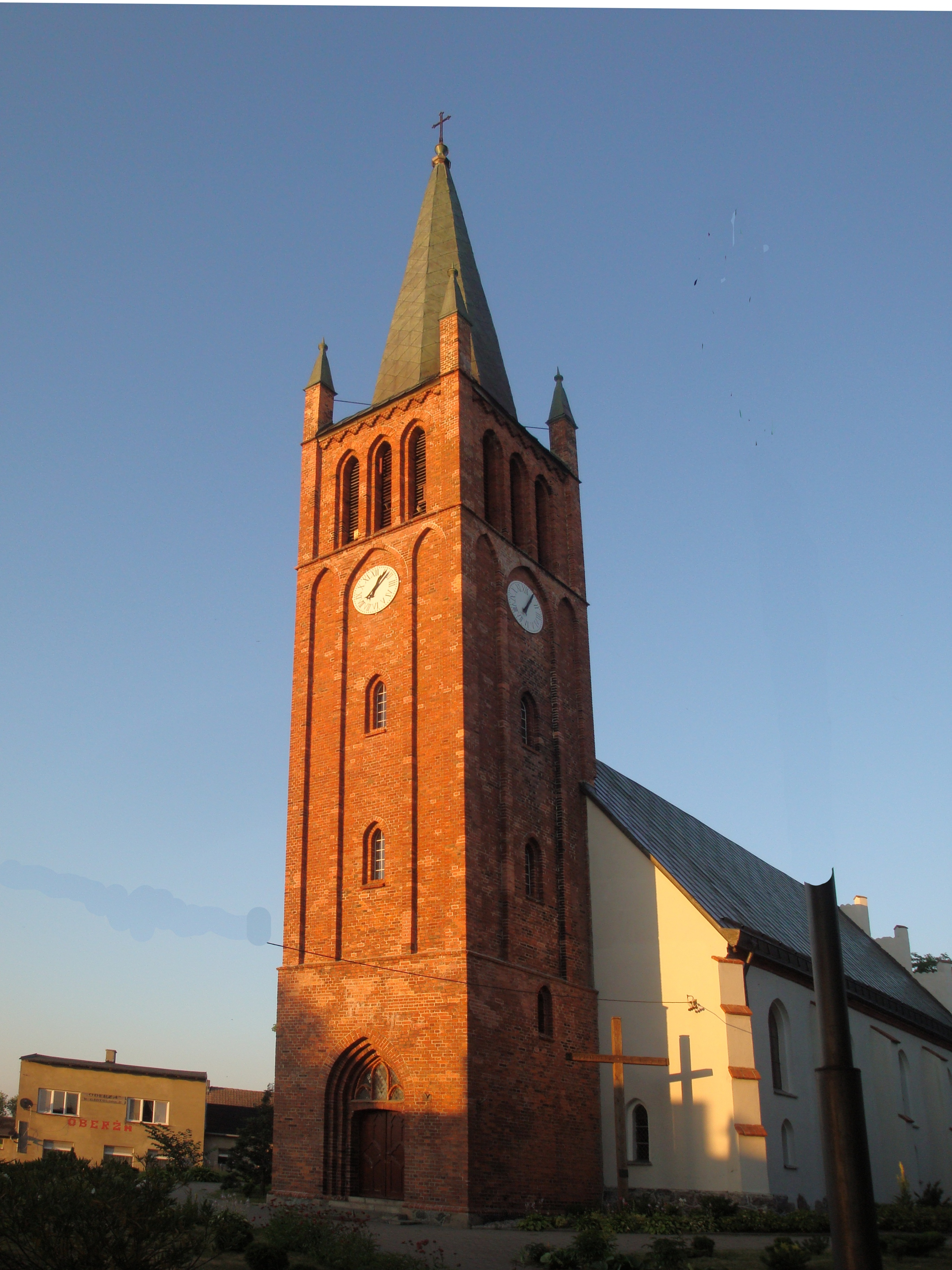 Gardna Wielka-village in Pomeranian Voivodeship, Poland. Church of Visitation BM